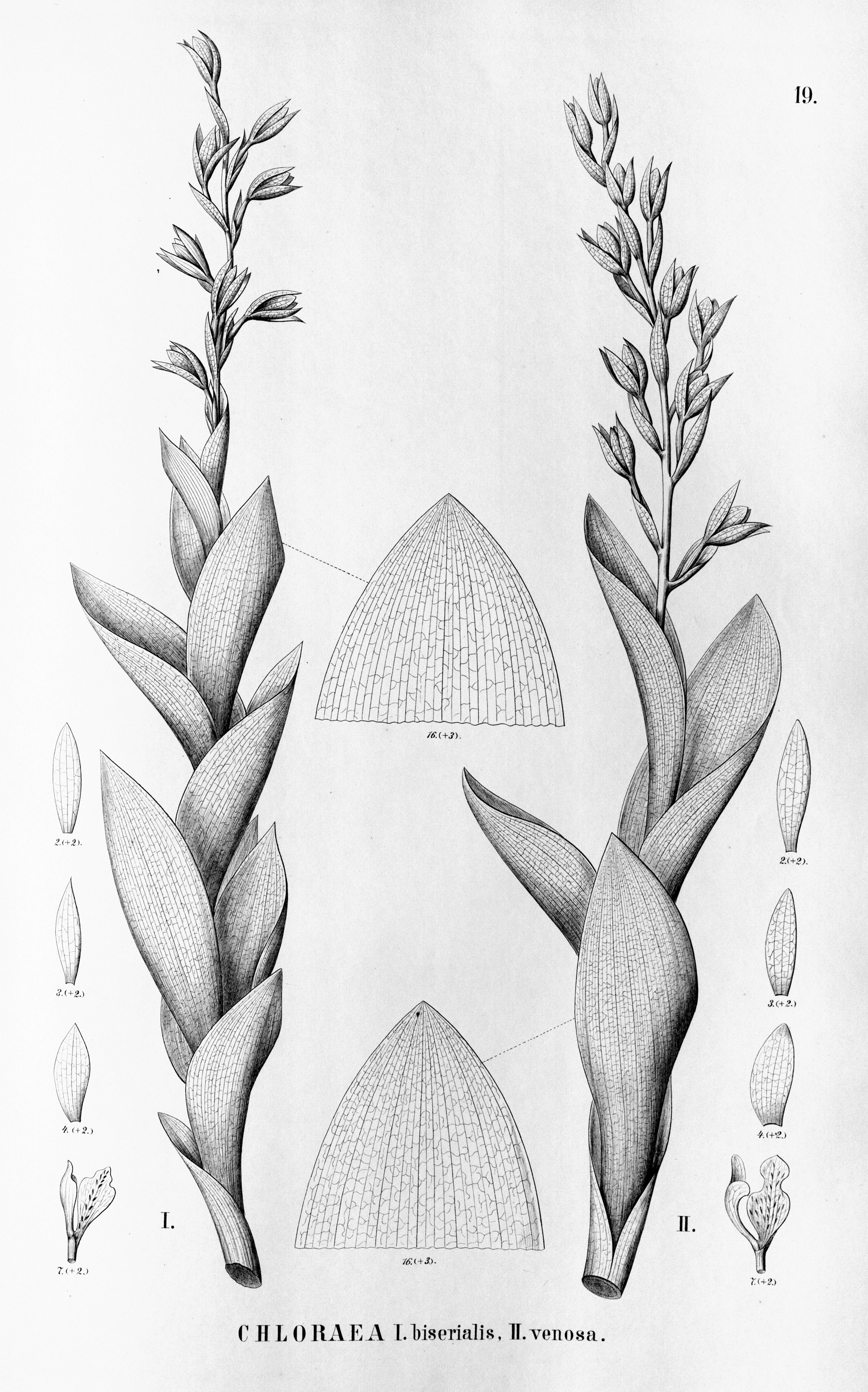 Illustration of: I. Chloraea biserialis II. Chloraea venosa